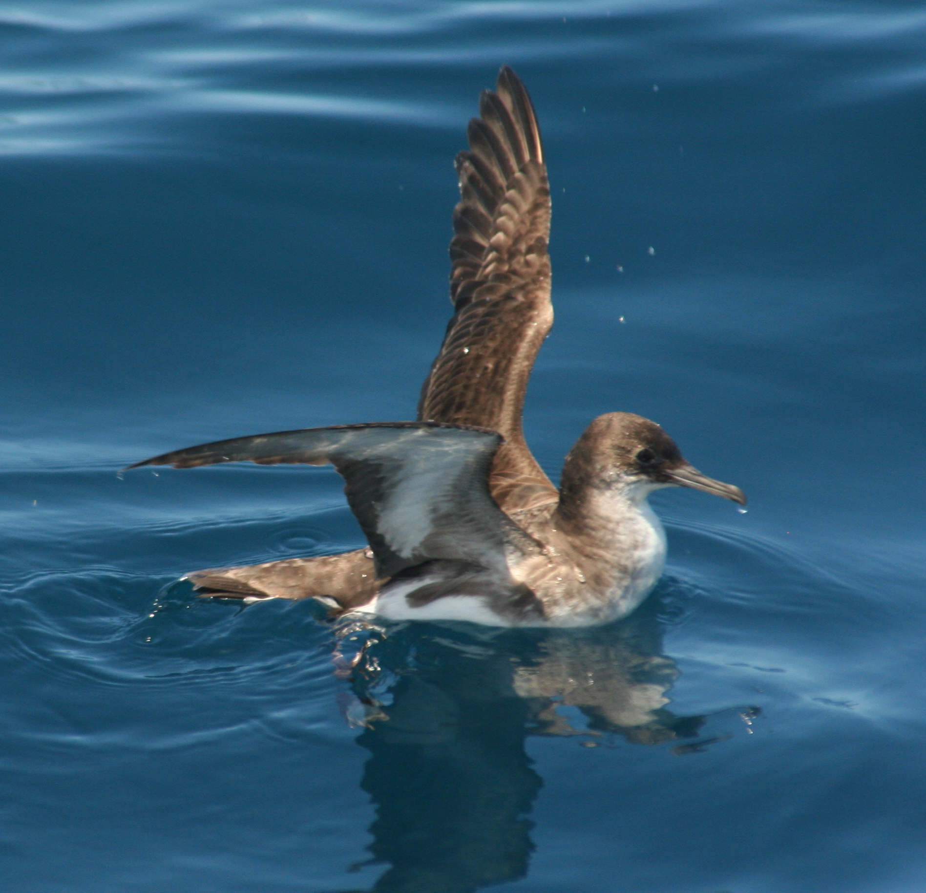 Fluttering Shearwater (Puffinus gavia). Taken near the Mokohinau Islands.